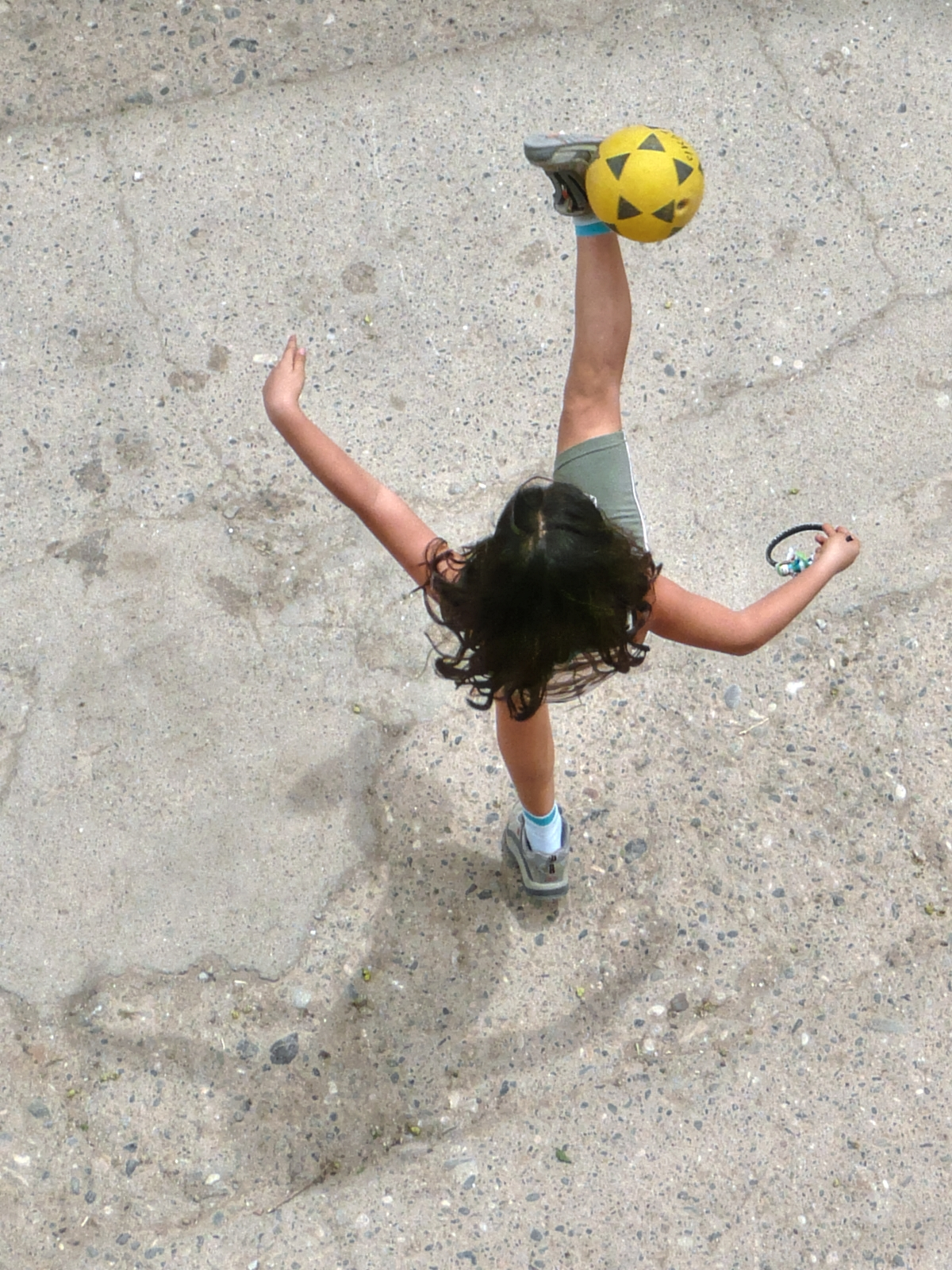 Photographs from Mardin, Turkey